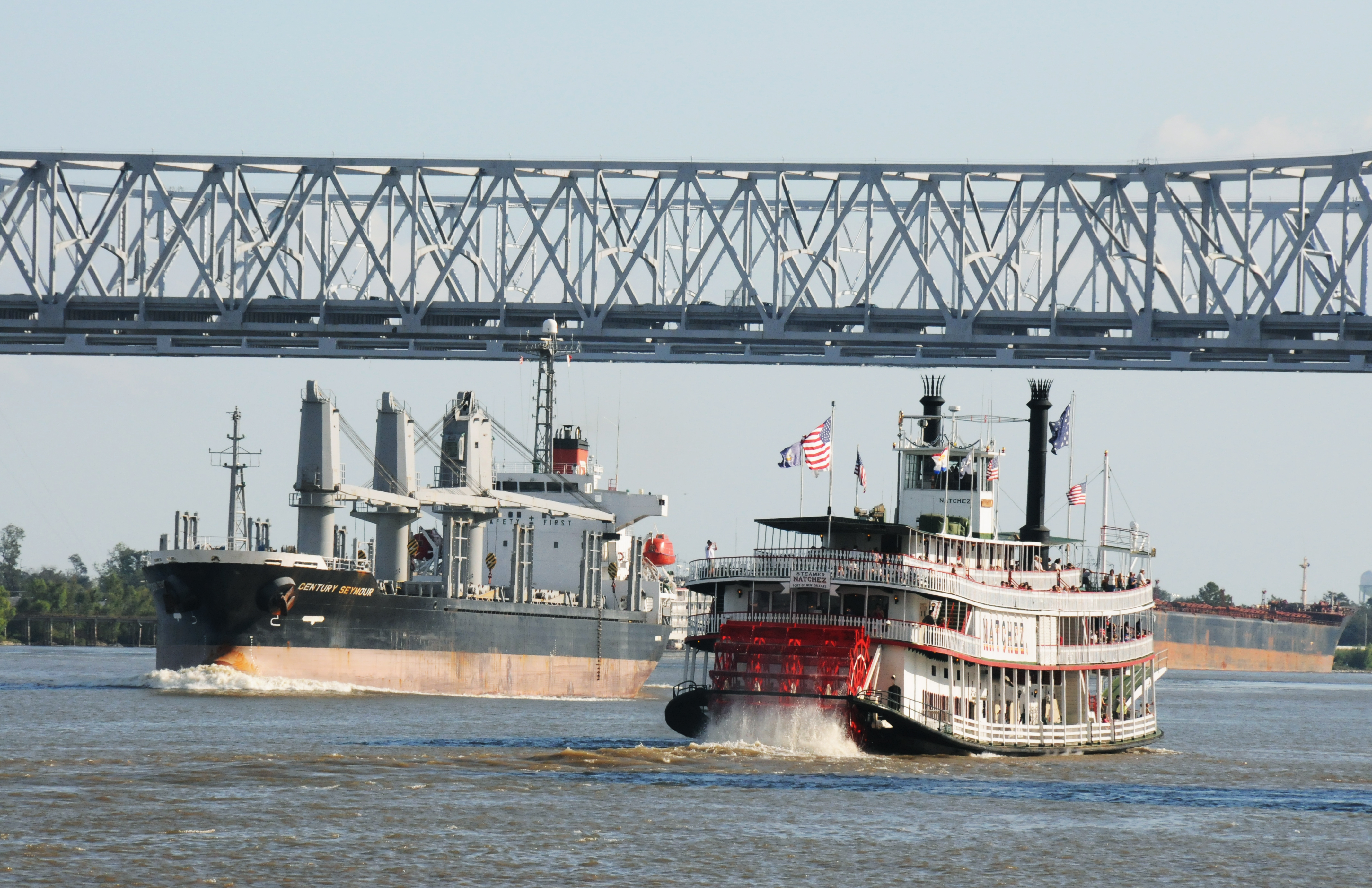 Boats on the Mississippi